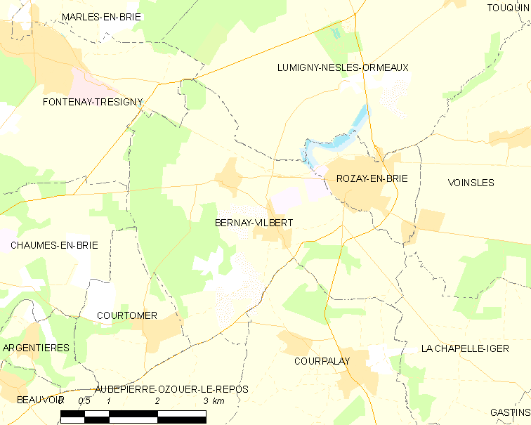 Map of French municipality Bernay-Vilbert